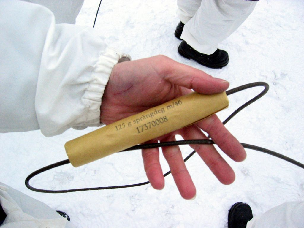 125 gram of plastic explosive (PETN based).